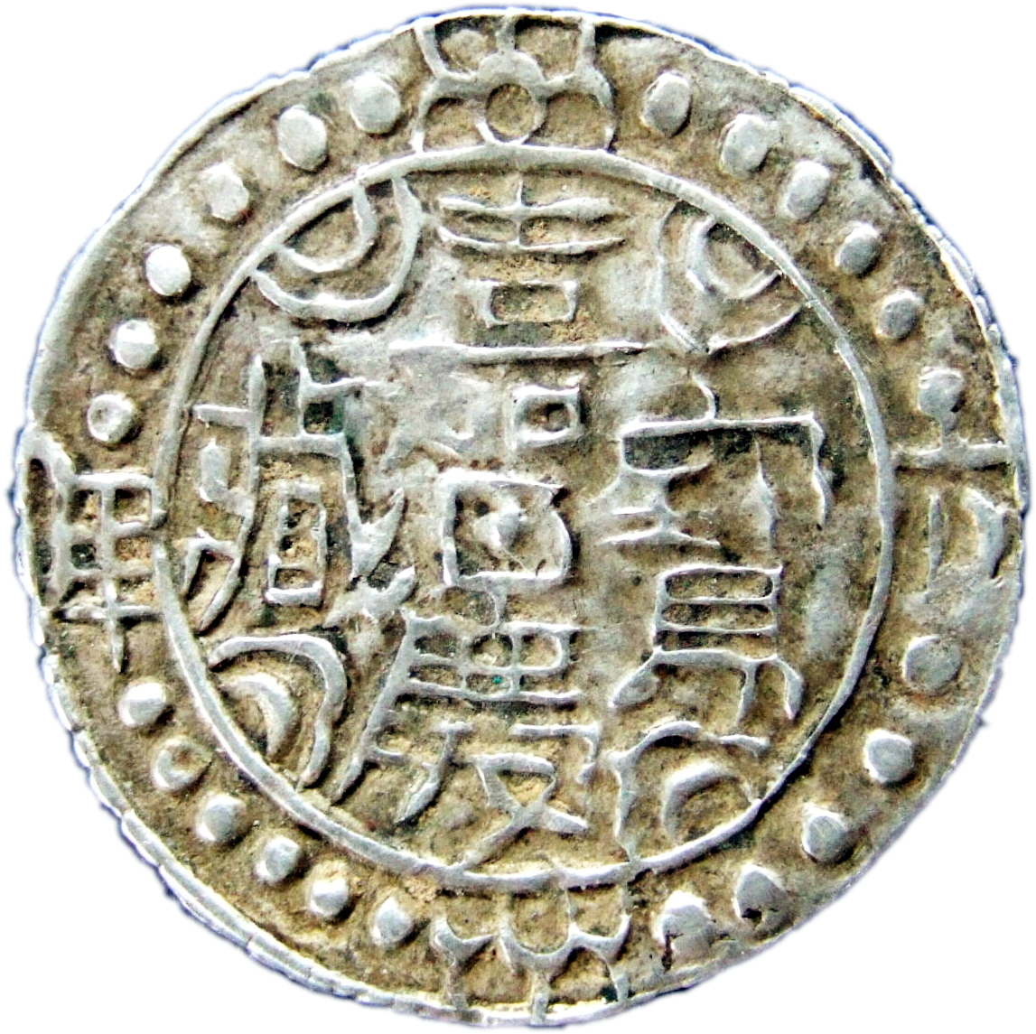 Sino-Tibetan coin of Jia Qing era, year 6 (obverse)